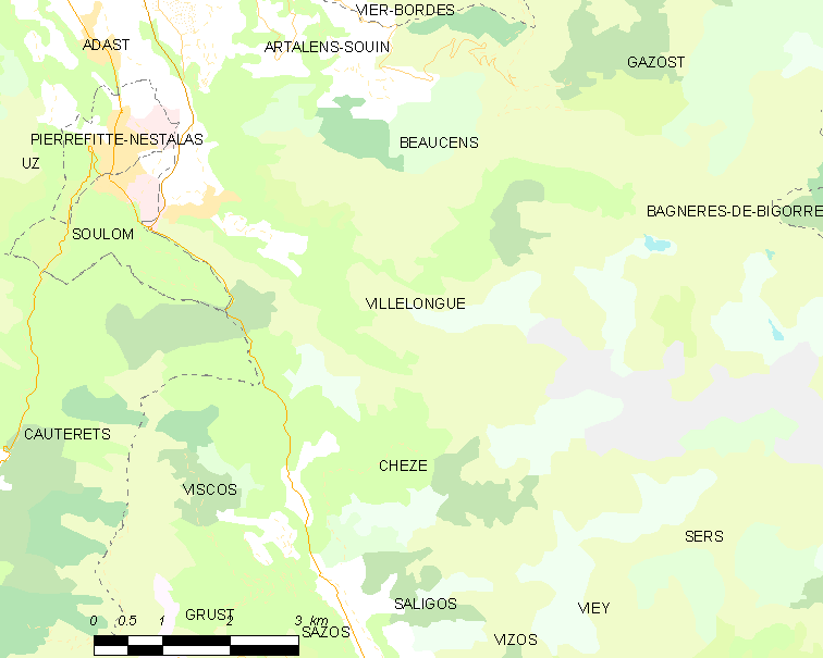 Map of French municipality